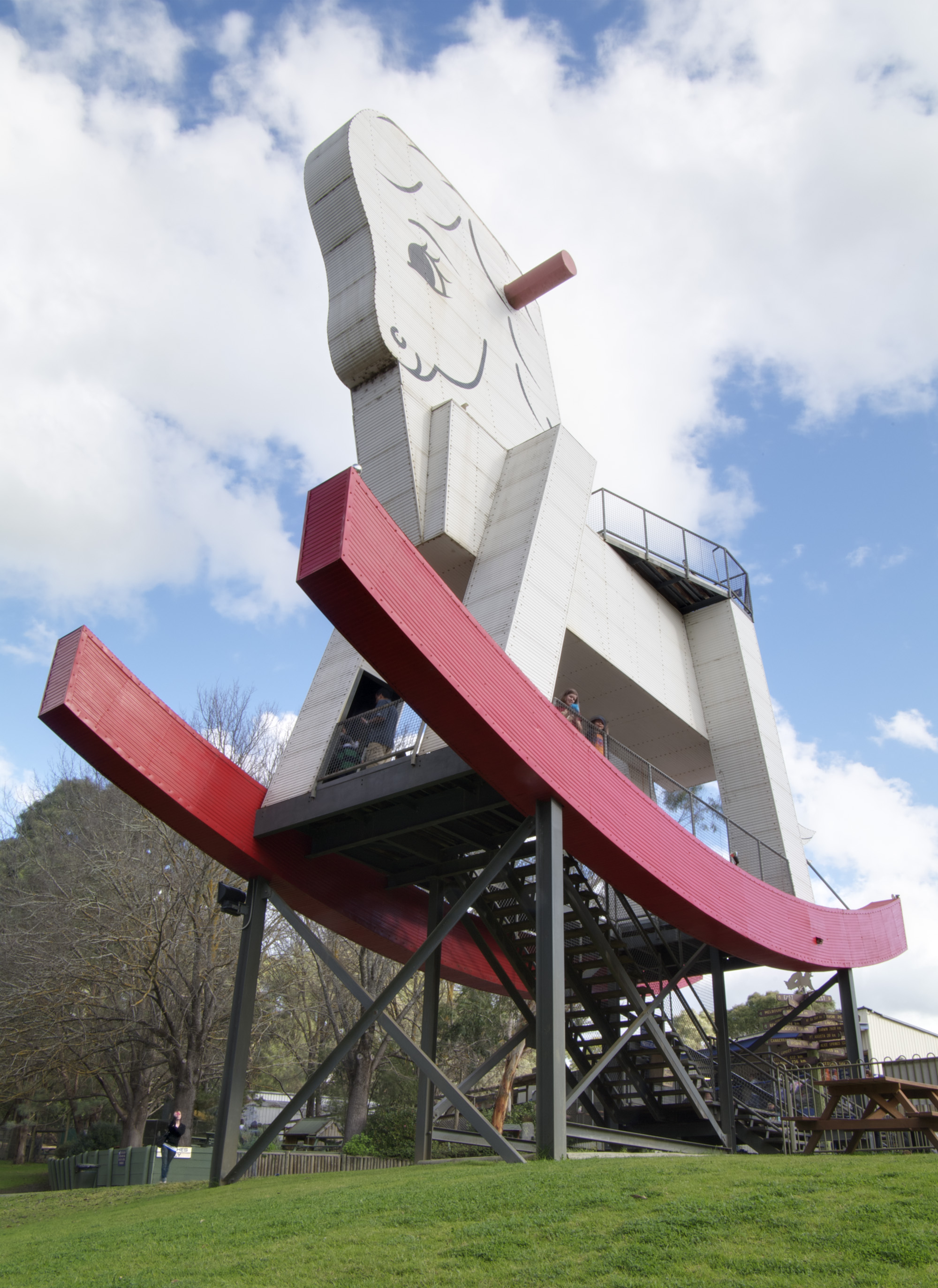 Part of a complex that includes a wooden toy factory and a wildlife park, the Big Rocking Horse is situated in the Adelaide Hills town of Gumeracha. The Big Rocking Horse is one of over 150 Big Things in Australia, and was the fourth in a series of roadside attractions built on the site. It was designed by David McIntosh, and took eight months to build at a cost of over $100,000. Constructed out of steel, the structure stands at 18.3 metres (60 ft) in height with an overall length of 17 metres (56 ft), and weighs in the vicinity of 25 tonnes (25 LT; 28 ST). In spite of being considered to be the biggest rocking horse in the world, the Big Rocking Horse does not rock, and 80 tonnes of concrete were used to prevent it from doing so.